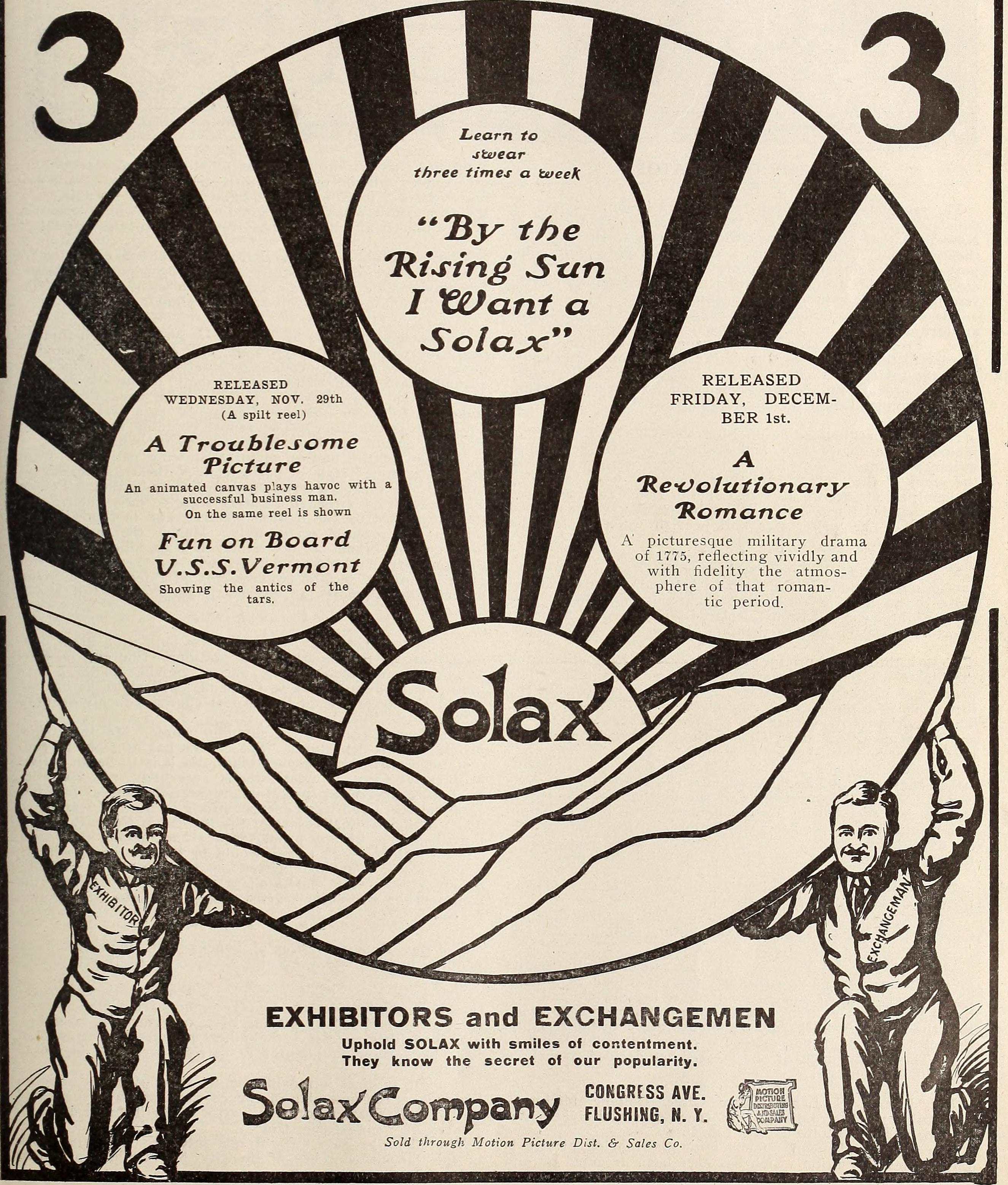 Title: Moving Picture News (1911) Year: 1911 (1910s) Authors: Subjects: motion pictures Publisher: Cinematograph Publishing Company Text Appearing Before Image: got up a sub-scription among themselves, and gave him a decent burialaccording to his faith, and after all expenses were paid, itwas discovered that $40 was left of the fund, which will beapplied at the proper time in raising a headstone to keephis memory green. Great credit is due to the members of the committee whoso earnestly worked for such admirable services, and it re-flects great credit upon the members of the Union for theirearnest and fraternal manner in looking after a lonely broth-ers last needs. LUX INDUSTRIAL AND SCENIC FILMS Exibitors will no doubt read with interest the announce-ment of Lux to the effect that in their usual split reel theywill release each week about a scenic and industrial, and acomedy and scenic. This is a good move, and the publicwant it. It is surprising with what interest films of this sortare met. THE MOVING PICTURE NEWS 37 EGINNING MONDAY, DECEMBER 18thSOLAX WILL RELEASE THREE-A-WEEK A FEATURE WILL BE RELEASED ON THAT DAY—WATCH ADVANCE NOTICES Text Appearing After Image: 38 THE MOVING PICTURE NEWS